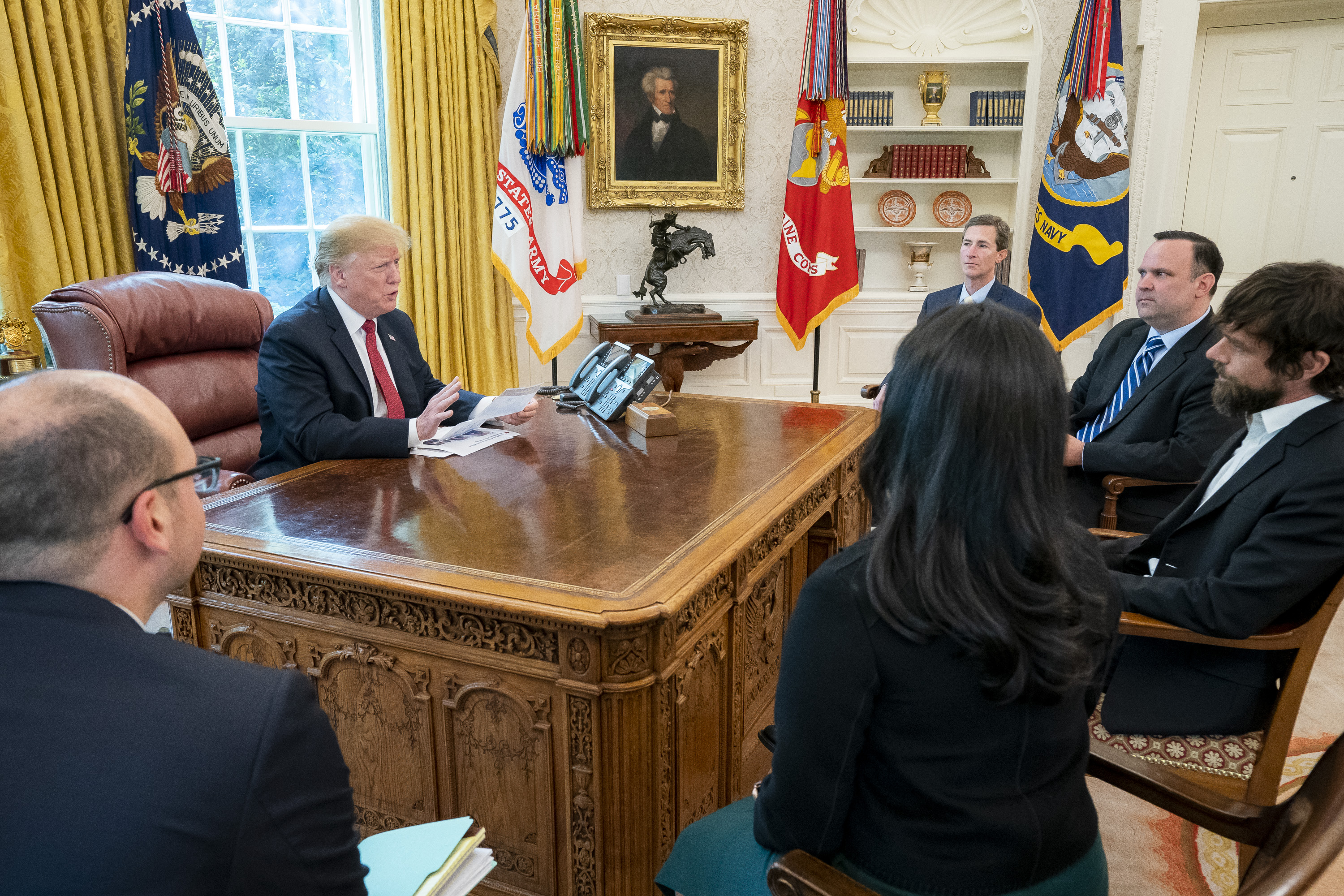 President Donald J. Trump meets with Twitter chief executive Jack Dorsey Tuesday, April 23, 2019, in the Oval Office of the White House. (Official White House Photo by Tia Dufour)